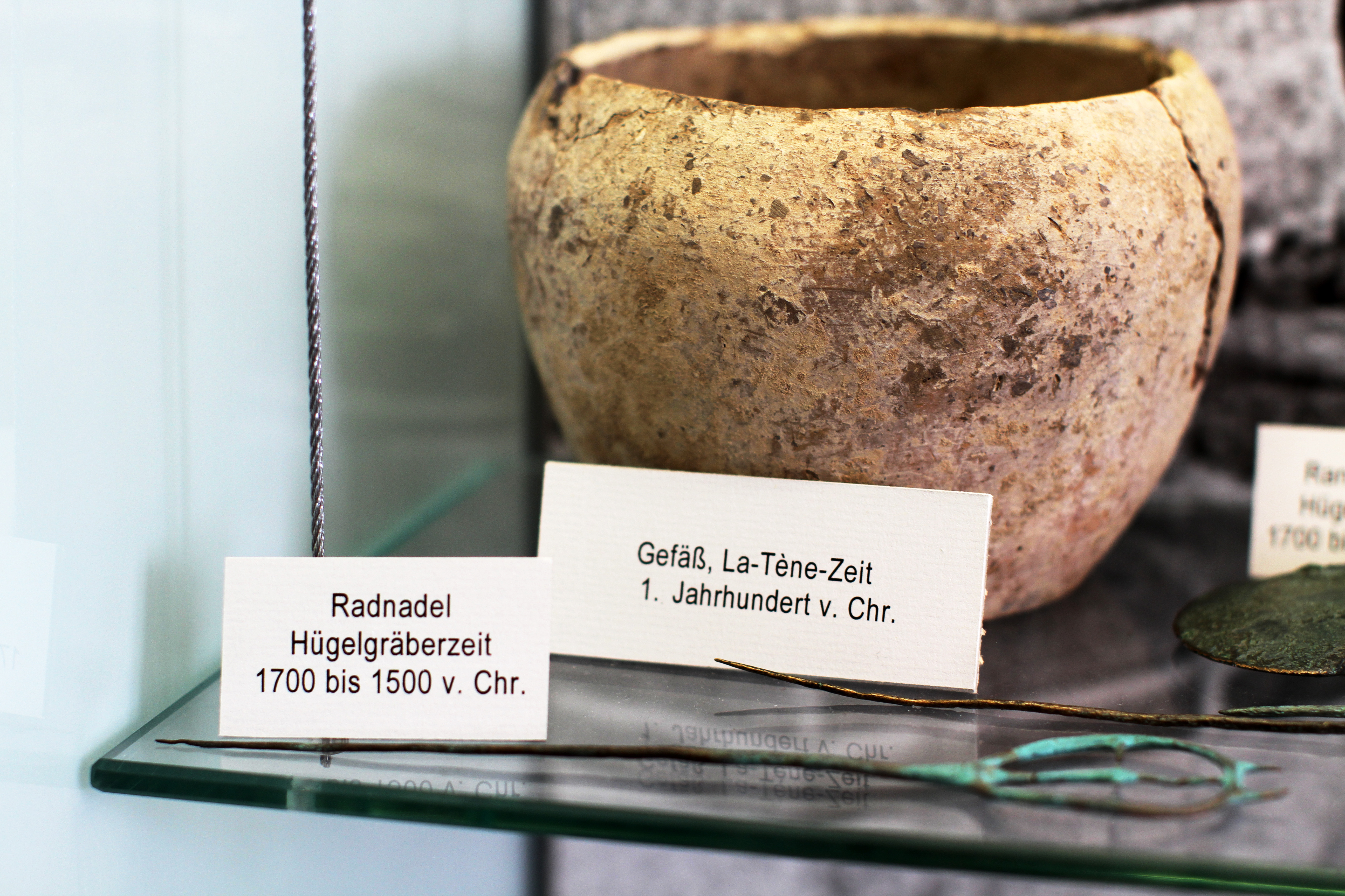 Finds of Middle Bronze Age and La Tène period in Oberwesel